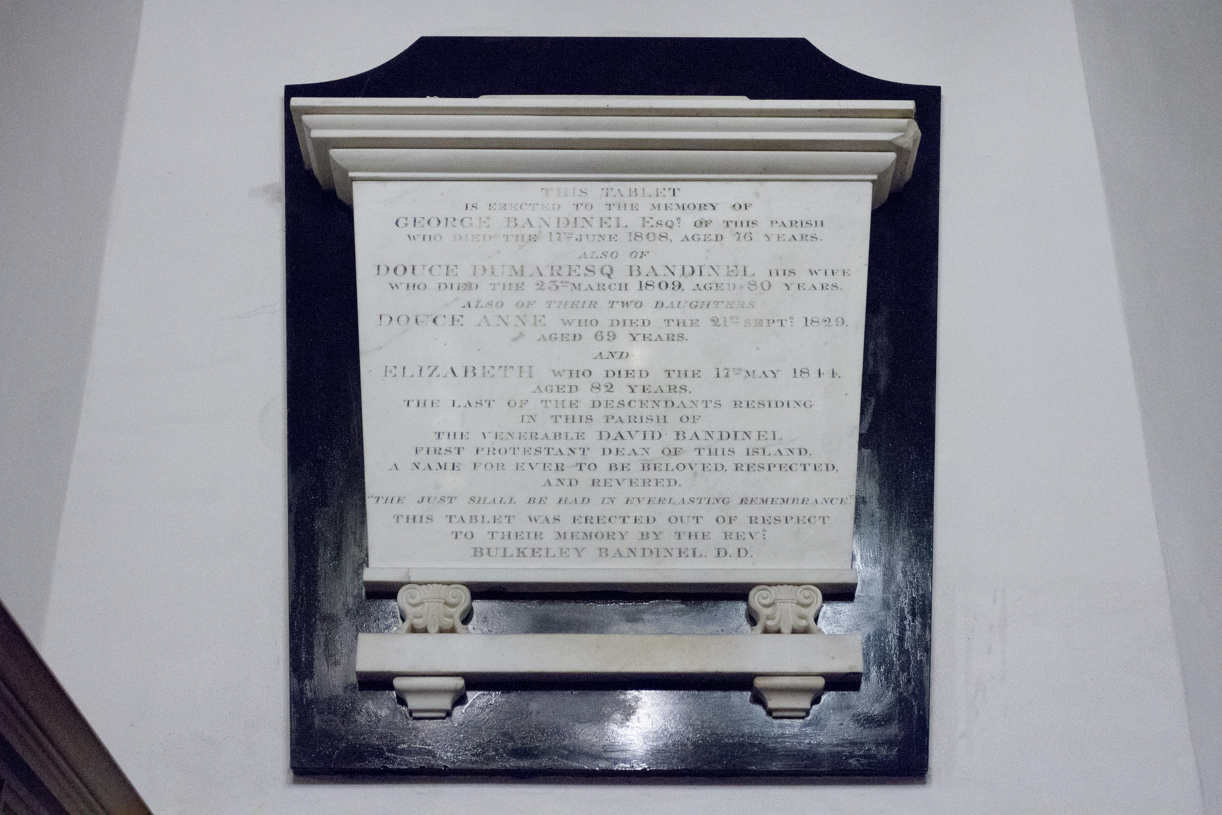 Bandinel memorial inside St Martin's church, Jersey.